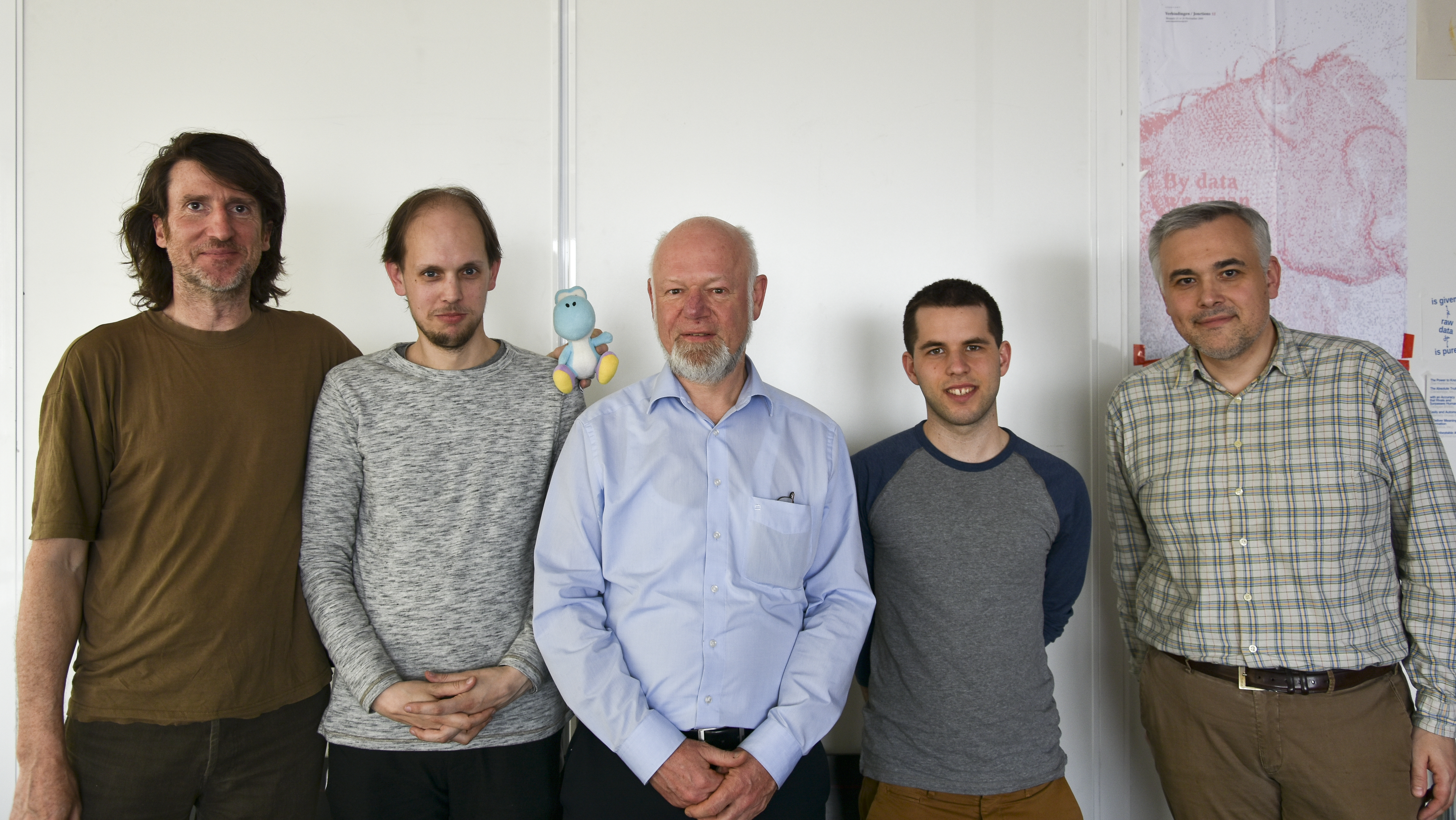 Wikimedia Belgium Board members since G.A. April 2018. Left to right: Lionel Scheepmans, Romaine, Geert Van Paemel, Robin Pepermans, Alberto Fernandez Fernandez. Board member Anne Jea not on the photo